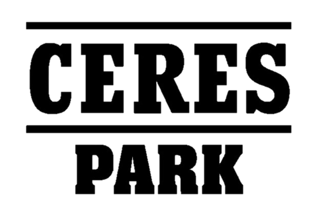 The sponsor logo of Ceres Park (introduced on 1 July 2015) - an association football stadium located in Aarhus, Denmark, also known as Aarhus Idrætspark, and the home ground of Danish association football club Aarhus Gymnastikforening. The name and logo is derived from the Danish brewery, Ceres, and its corporate logo.